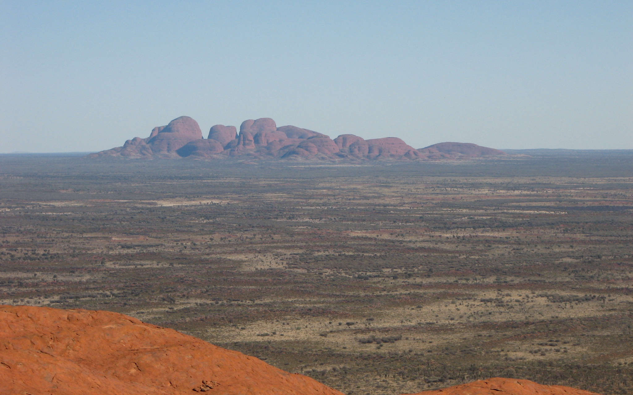 Kata Tjuta, from the top of Uluru